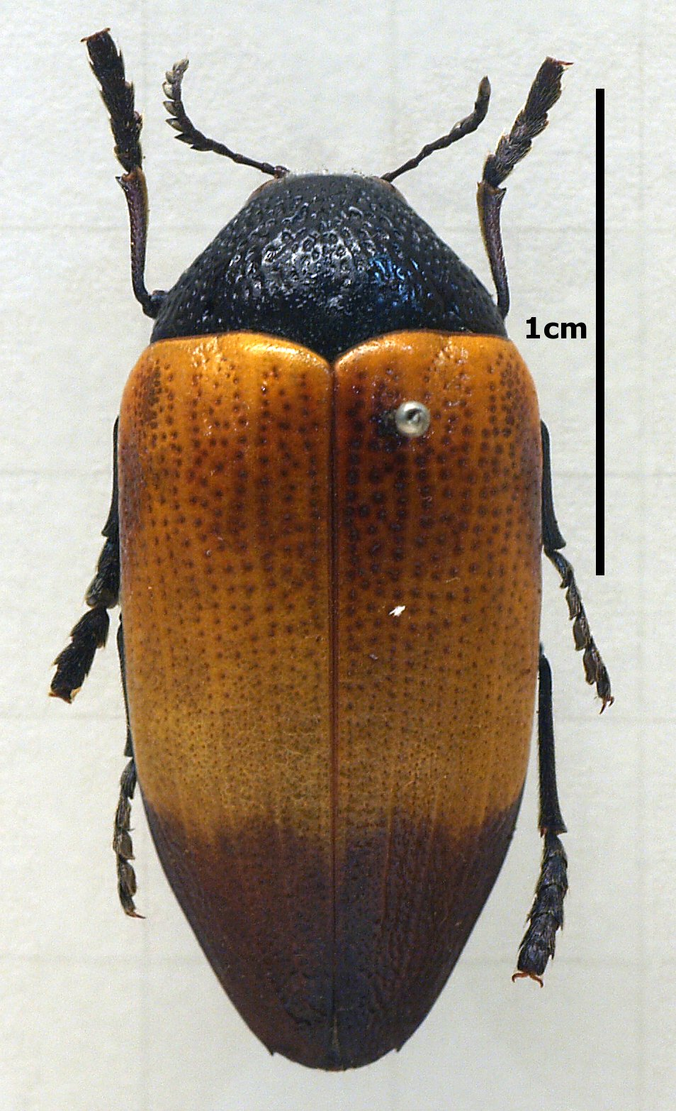 Sternocera hunteri from East Africa. Mounted specimen.